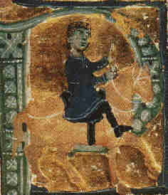 Raimon de Miraval, from a manuscript in the Bibliothèque Nationale de France.